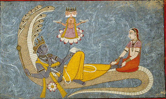 The deity Vishnu reclines on the coil of the great serpent Shesha, while the four-headed Brahma springs from his navel. Lakshmi, Vishnu's consort, caresses his feet with devotion. Chamba, Pahari